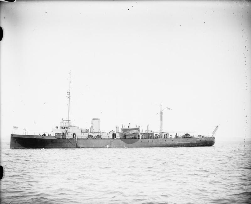 Photograph of British minesweeper HMS Aberdare.